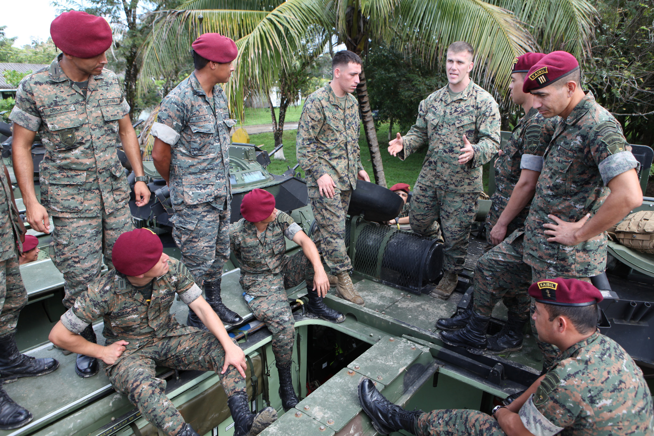 KAIBIL BASE, Guatemala (Feb. 17, 2011) Marines assigned to the 2nd Tank Assault Amphibian Battalion supporting the Security Cooperation Task Force of Amphibious Southern Partnership Station 2011 conduct a subject matter expert exchange with Guatemalan Kaibil soldiers. Amphibious Southern Partnership Station 2011 is an annual deployment of U.S. ships to the U.S. Southern Command area of responsibility in the Caribbean and Latin America. (U.S. Marine Corps photo by Cpl. Brittany J. Kohler/Released)